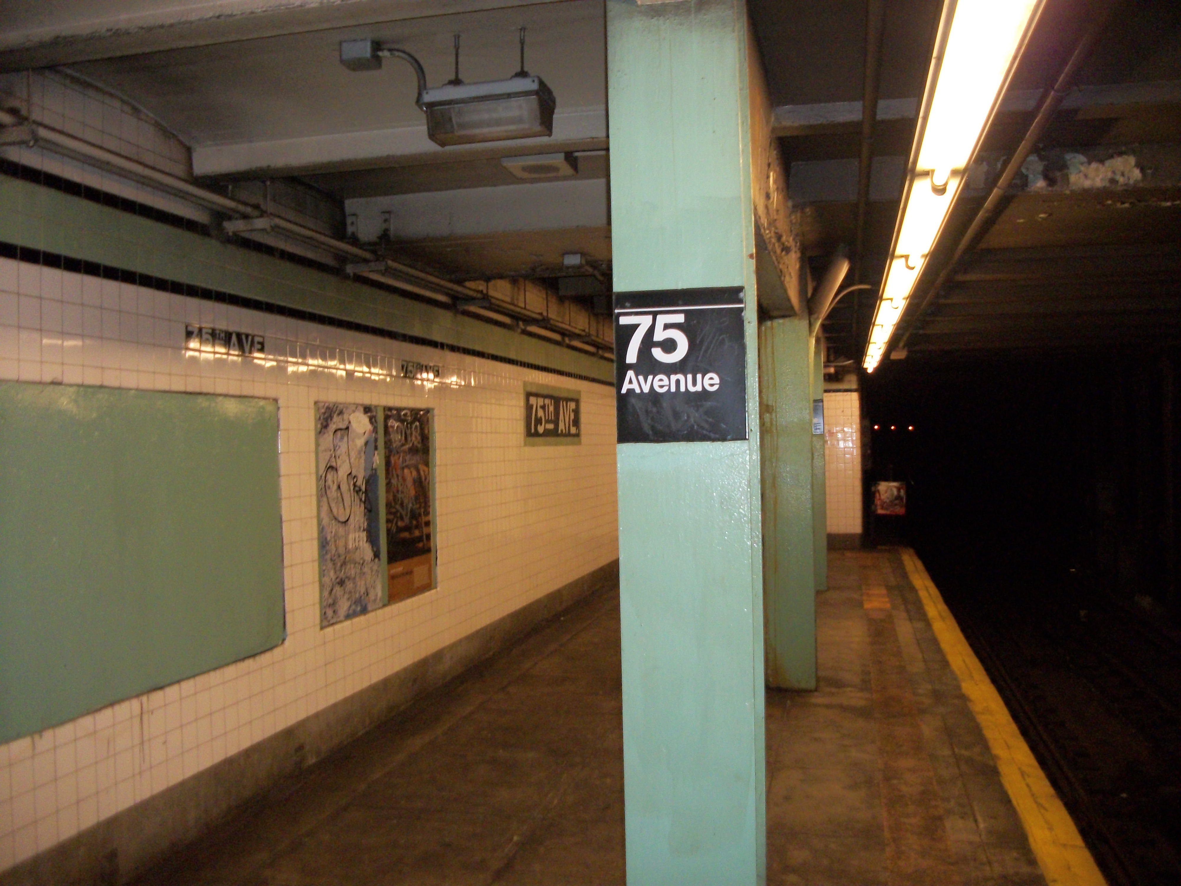 Helvetica signs on one of the support poles on the platforms for 75th Avenue (IND Queens Boulevard Line) in Forest Hills, Queens, New York.